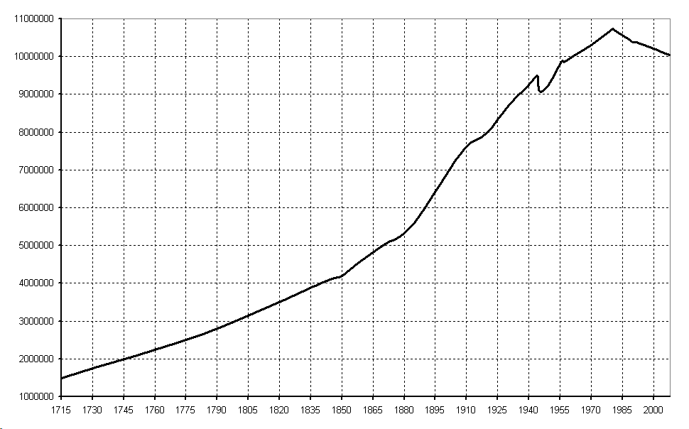 Population change of Hungary (1715-2008)